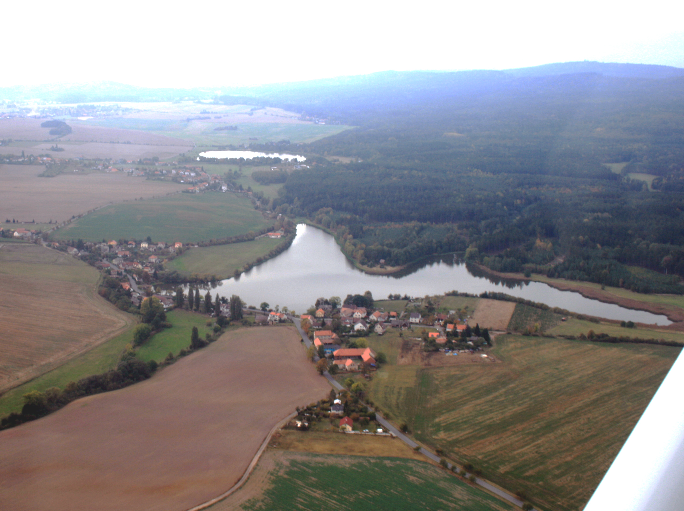 Air photo of Sychrov, part of Rosovice in central Bohemia, Czech Republic